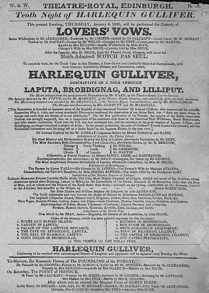 Playbill for performance of Elizabeth Inchbald's Lovers' Vows and Harlequin Gulliver at the Theatre Royal, Edinburgh, 1820